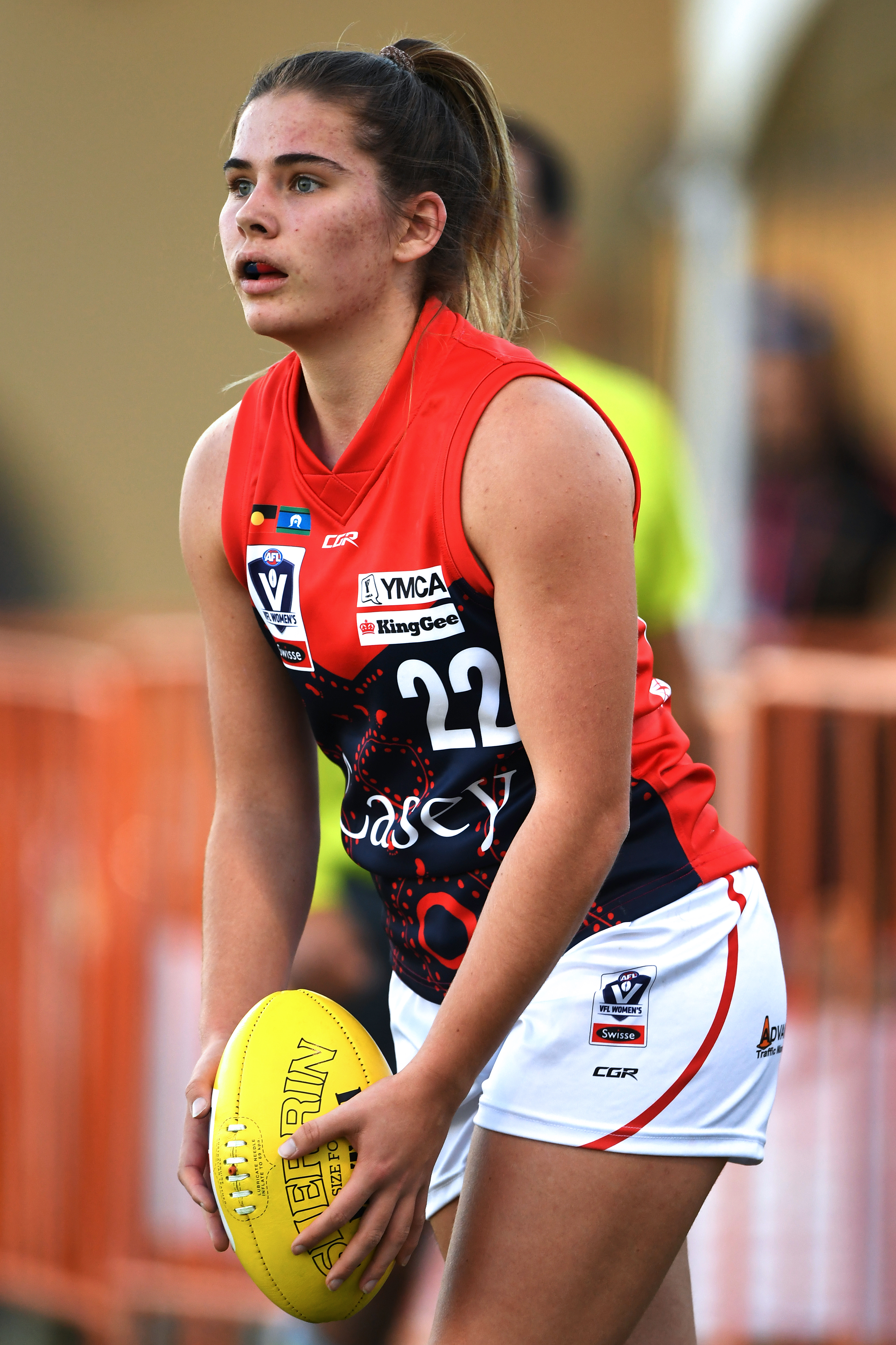 Maddy Guerin of Casey during the 2019 VFLW round 11 match between NT Thunder and Casey at Traeger Park on Saturday, 20 July 2019 in Alice Springs, Northern Territory.